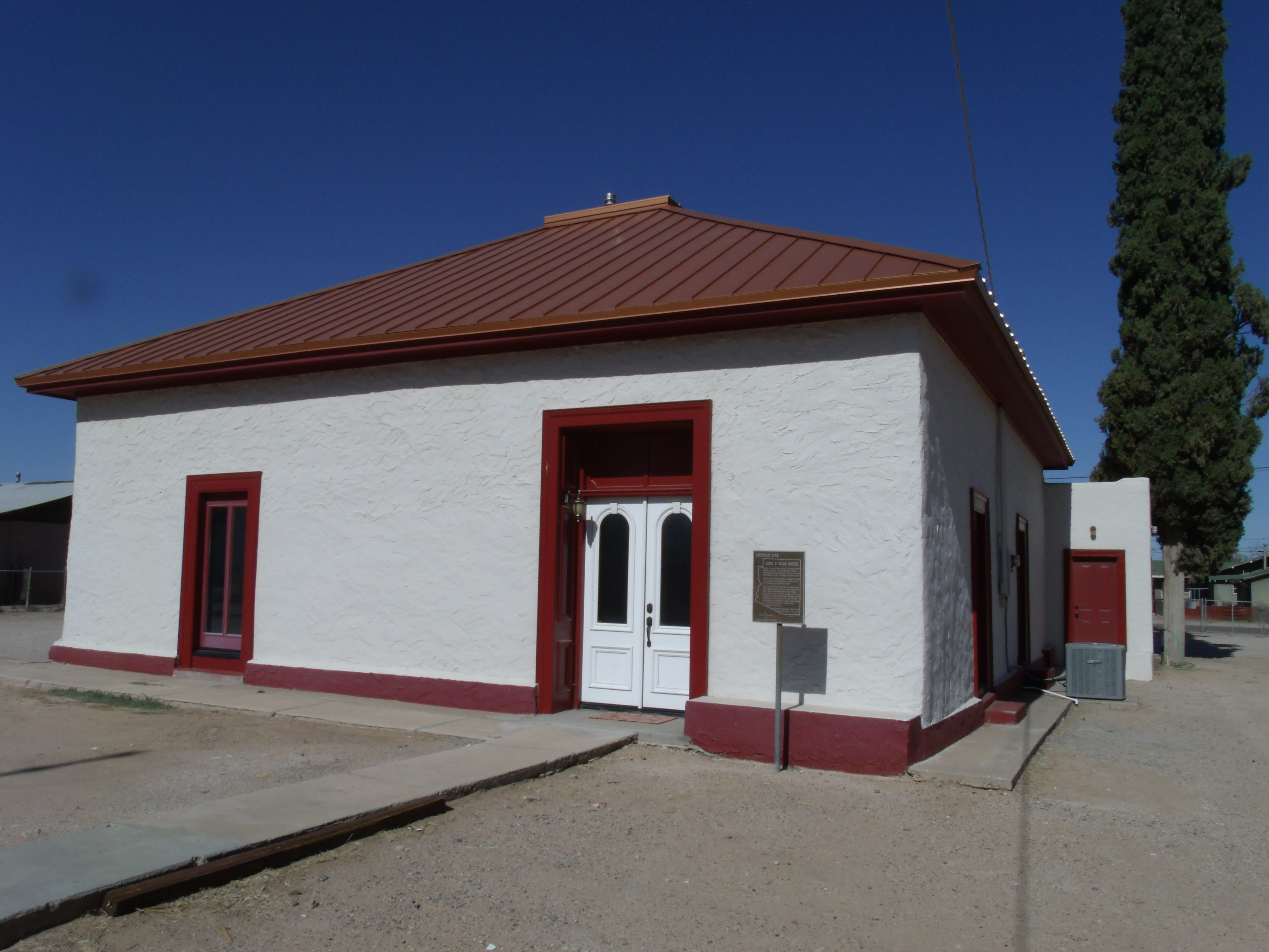 The John Clum House was built in 1878 and is located in 180 N. Granite St. in Florence, Arizona. The home was built by John Clum, an Indian agent, editor and publisher of Florence’s first newspaper, the Arizona Citizen. He also was the founder and editor of the Tombstone Epitaph and was Tombstone’s first mayor. This building appears to have housed the Citizen’s office and press. A later owner, William Guild, built the telegraph line from the Silver King Mine to Casa Grande. Listed as Historic by the Historic District Advisory Commission.